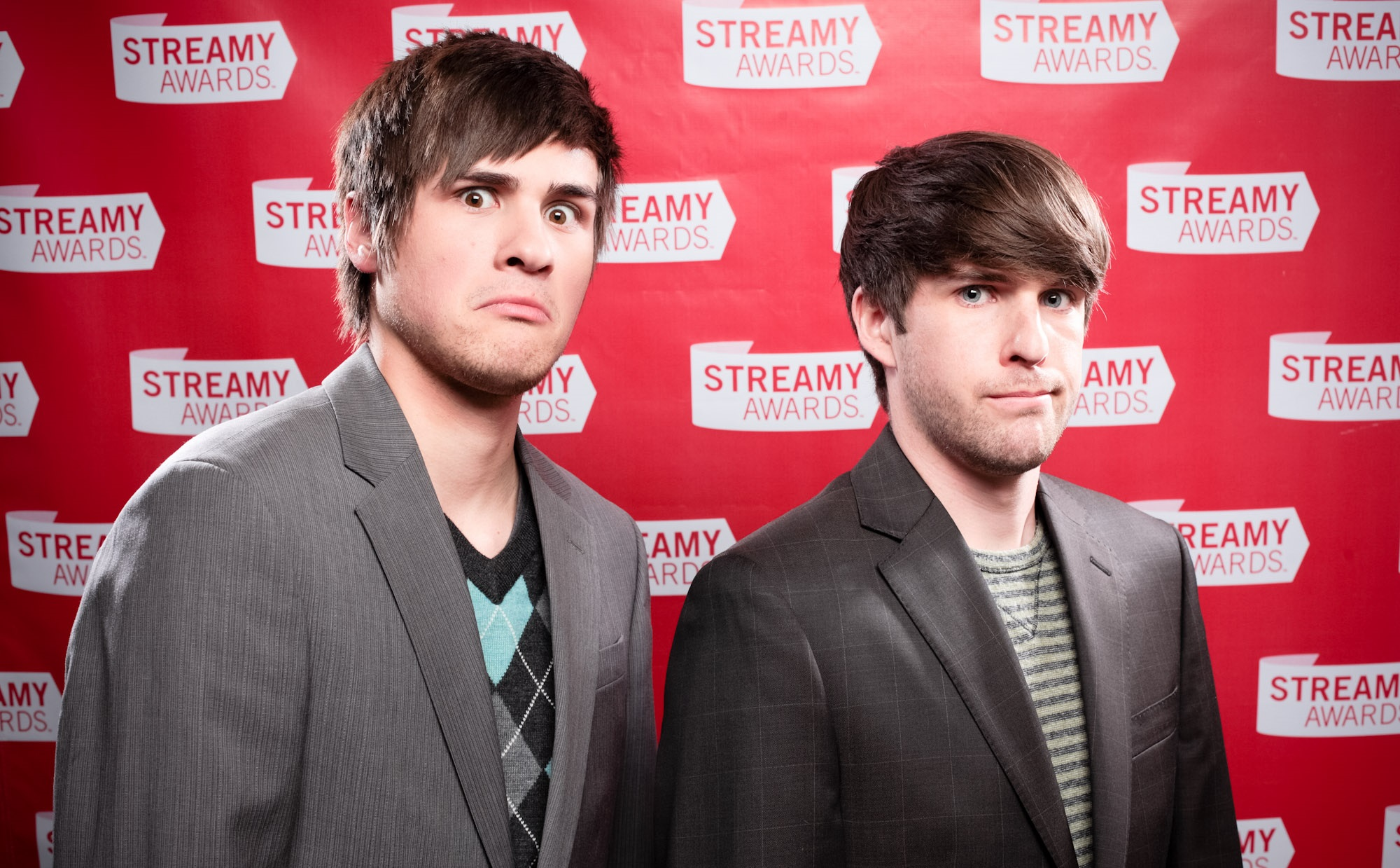 Cropped version of File:Streamy Awards Photo 1180 (4513303273).jpg